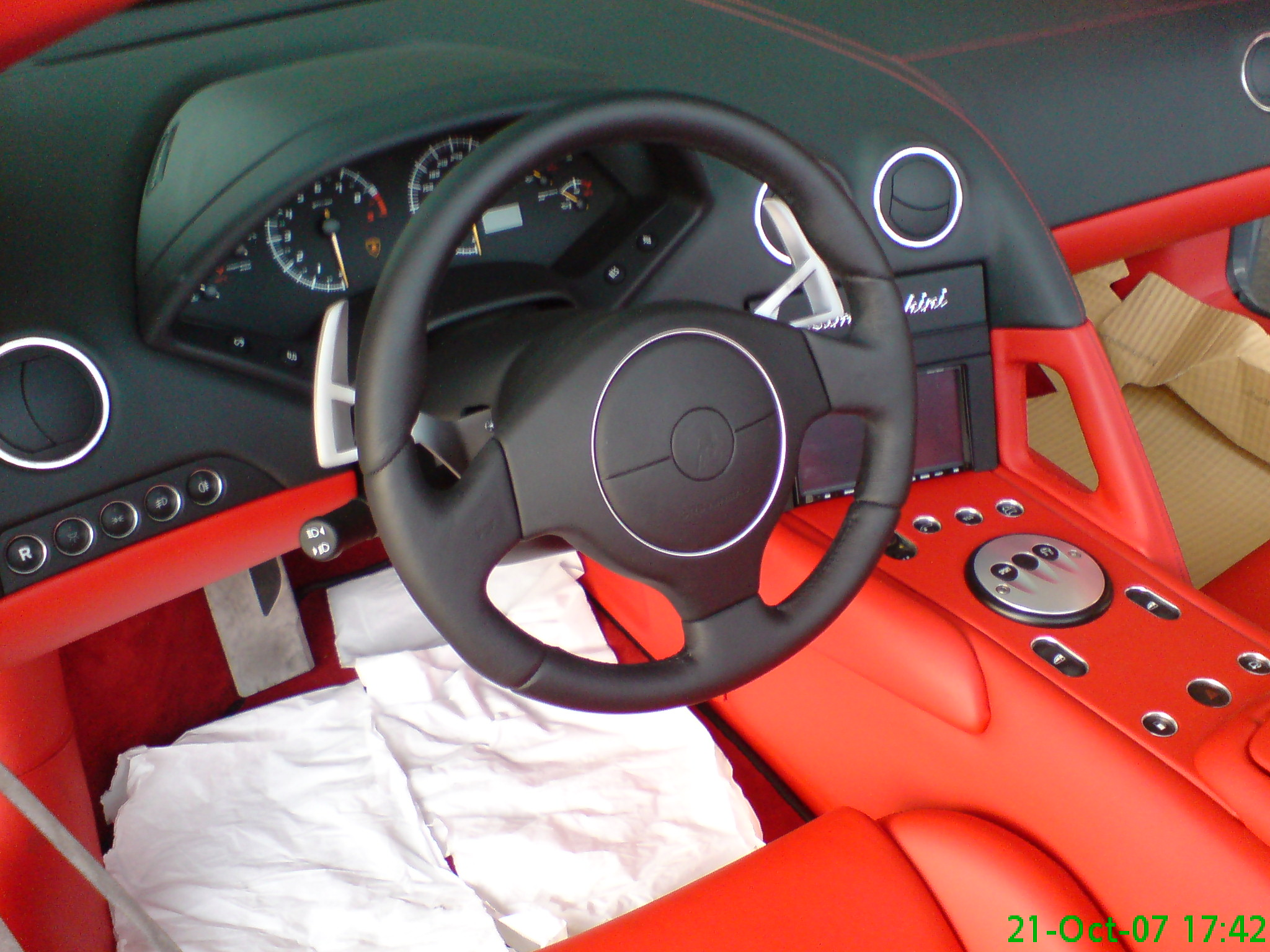 LP640 Lamborghini Murcielago - Shown in Al-Gassan Super Motors. Jeddah, Saudi Arabia